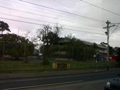 Debney PArk Secondary College from Mount Alexander Road